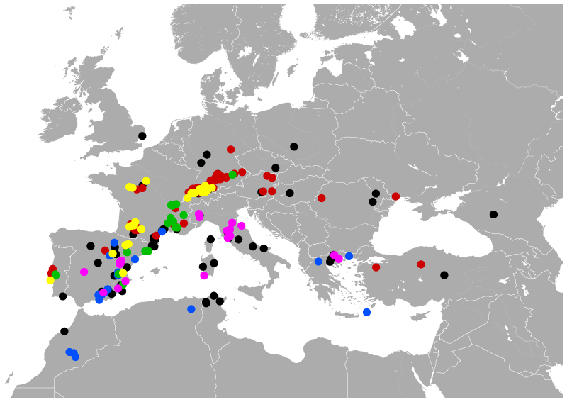 Prolagus sp. fossils distribution map. P. oeningensis is red, P. michauxi blue, P. crusafonti green, P. sorbinii pink, P. vasconiensis yellow, other Prolagus species including indet. are black. The map was created using the Generic Mapping Tools, GMT, version 5.1.1.